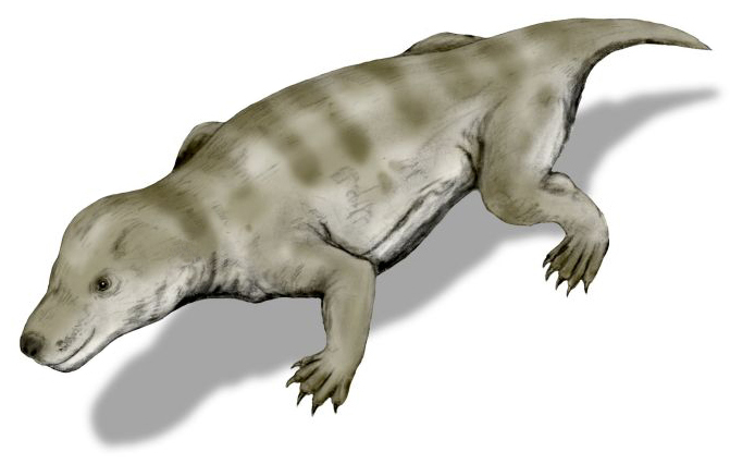 Thrinaxodon liorhinus, an early triassic cynodont of South Africa, pencil drawing, after skeletal by Kemp (1982)